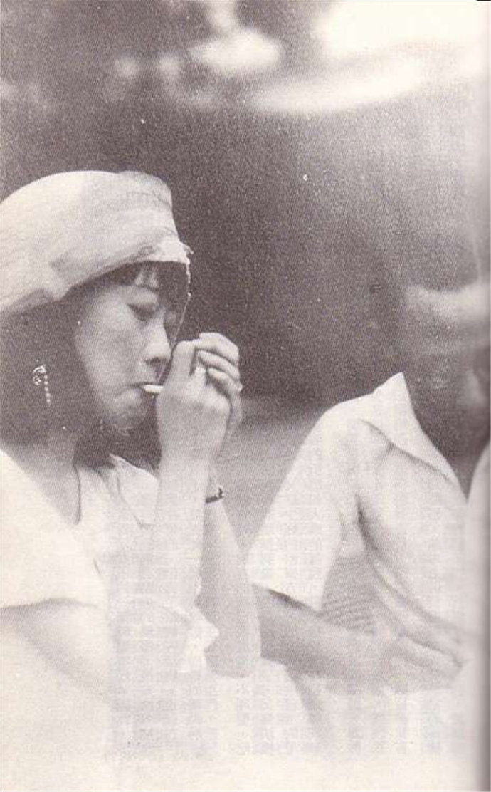 Empress Wanrong smoking near last emperor of China, Puyi